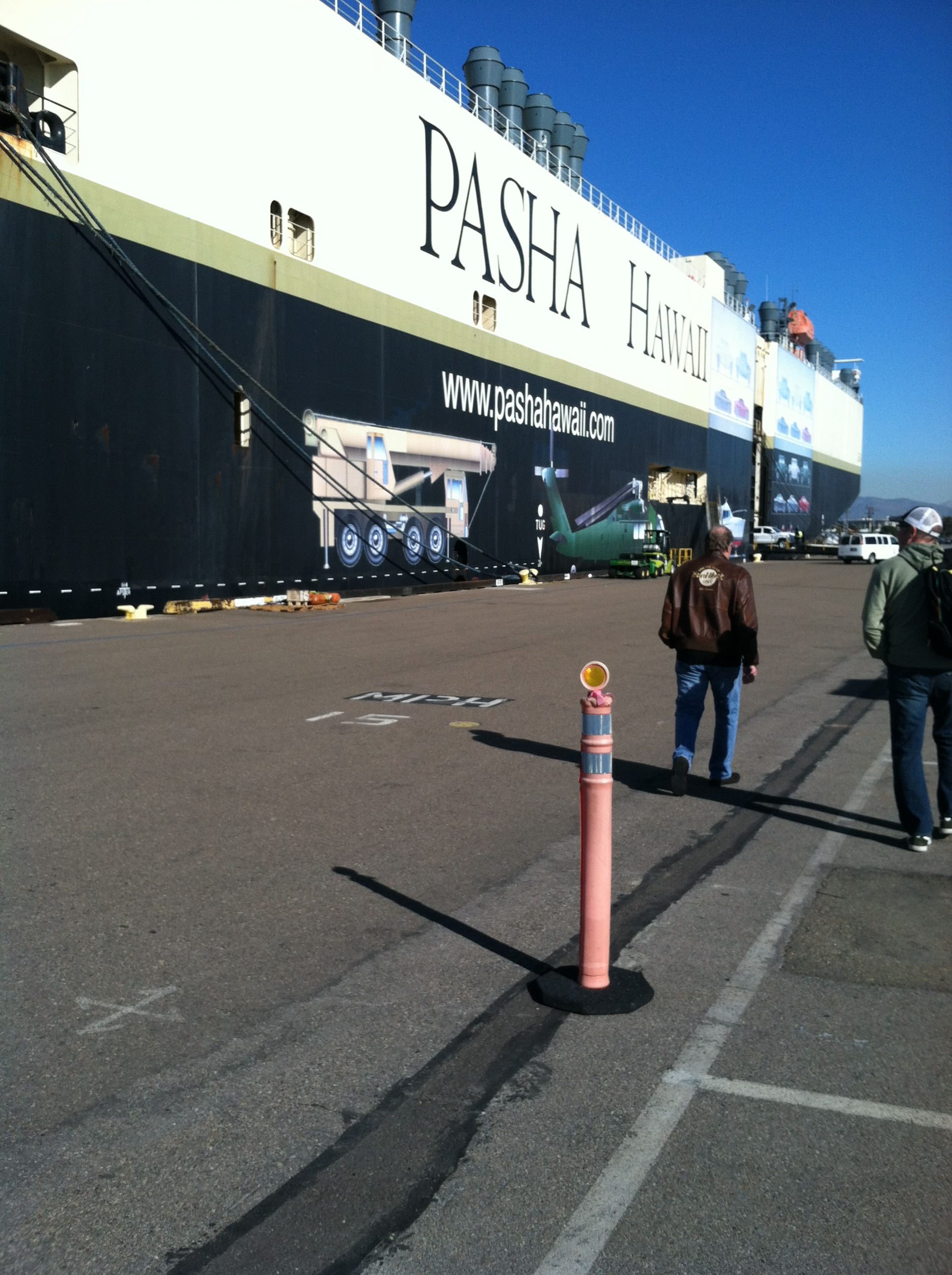 This is the Jean Ann, which is own by the company Pasha Hawaii, side view of when it was dock.